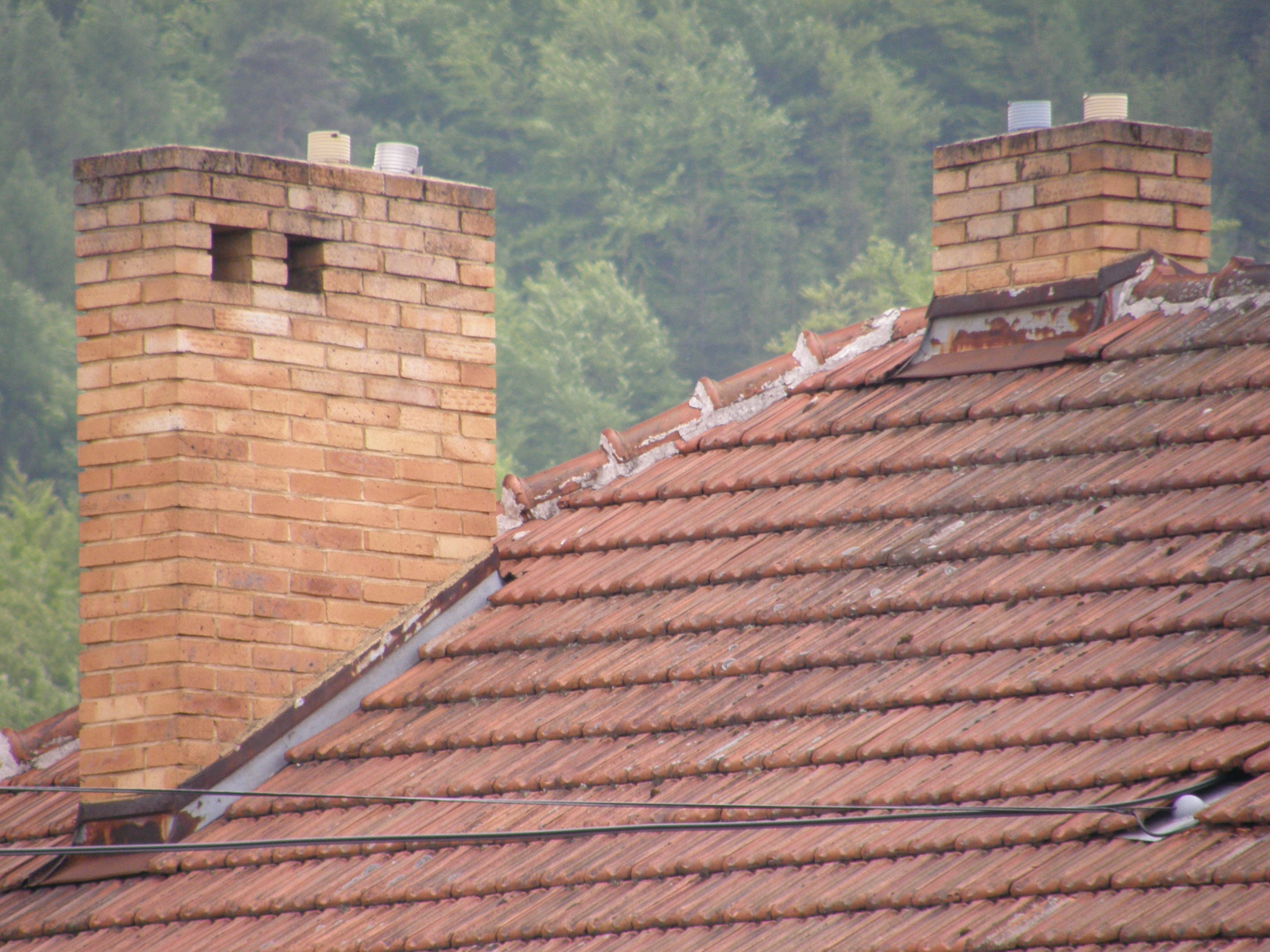 Chimneys